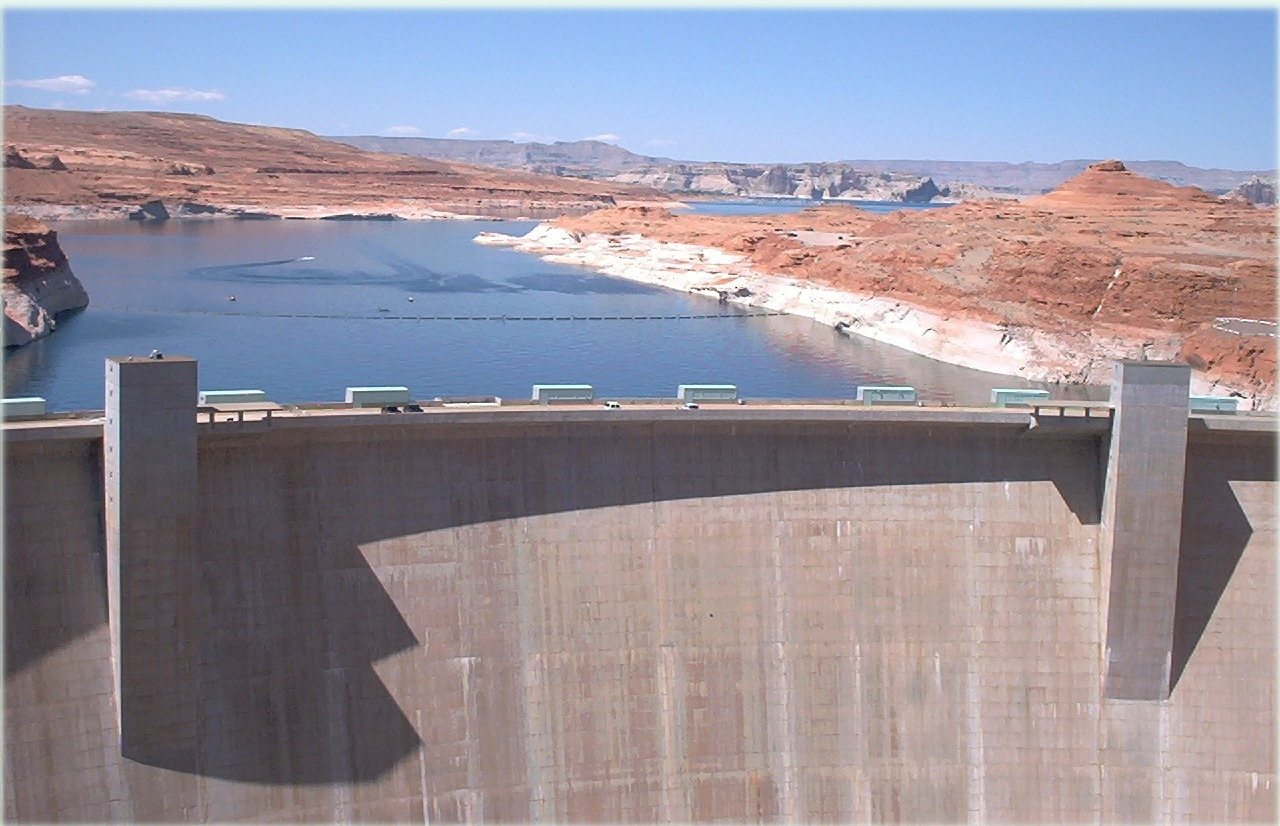 Photograph of Glen Canyon Dam & Lake Powell